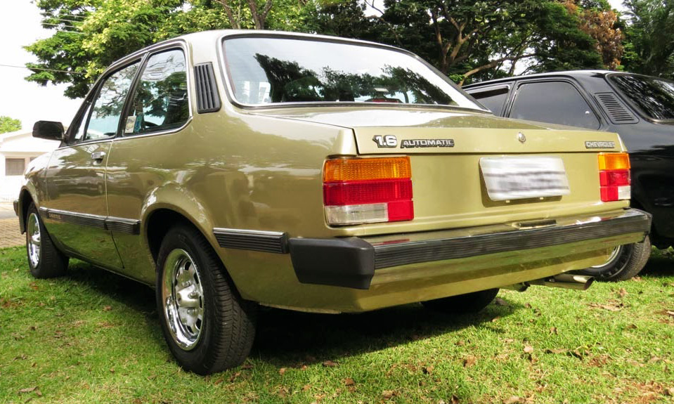 Rear view of two-door Chevrolet Chevette 1.6 Automatic in Brazil.